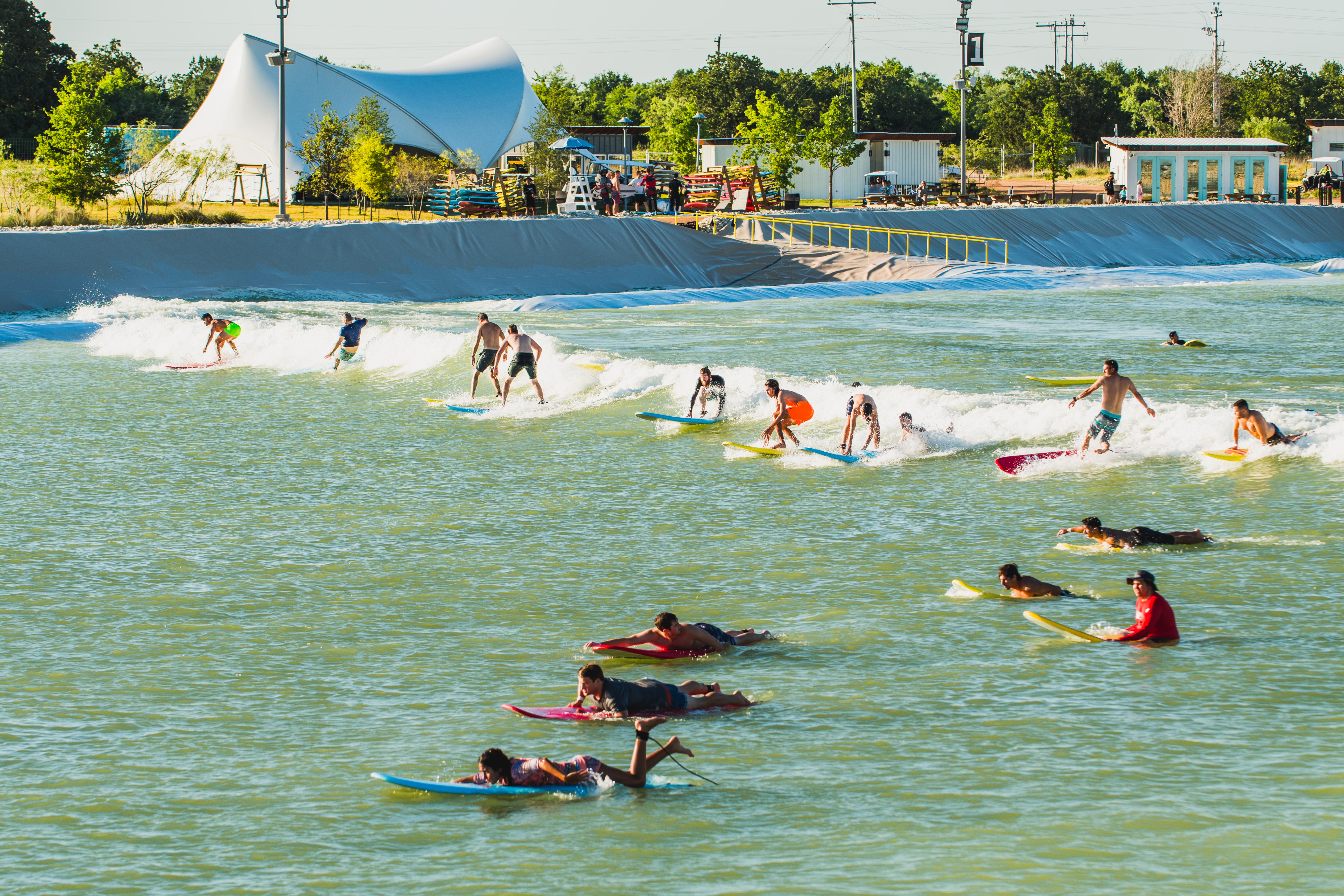 Guests surf the Inside wave on NLand's open day in 2017.